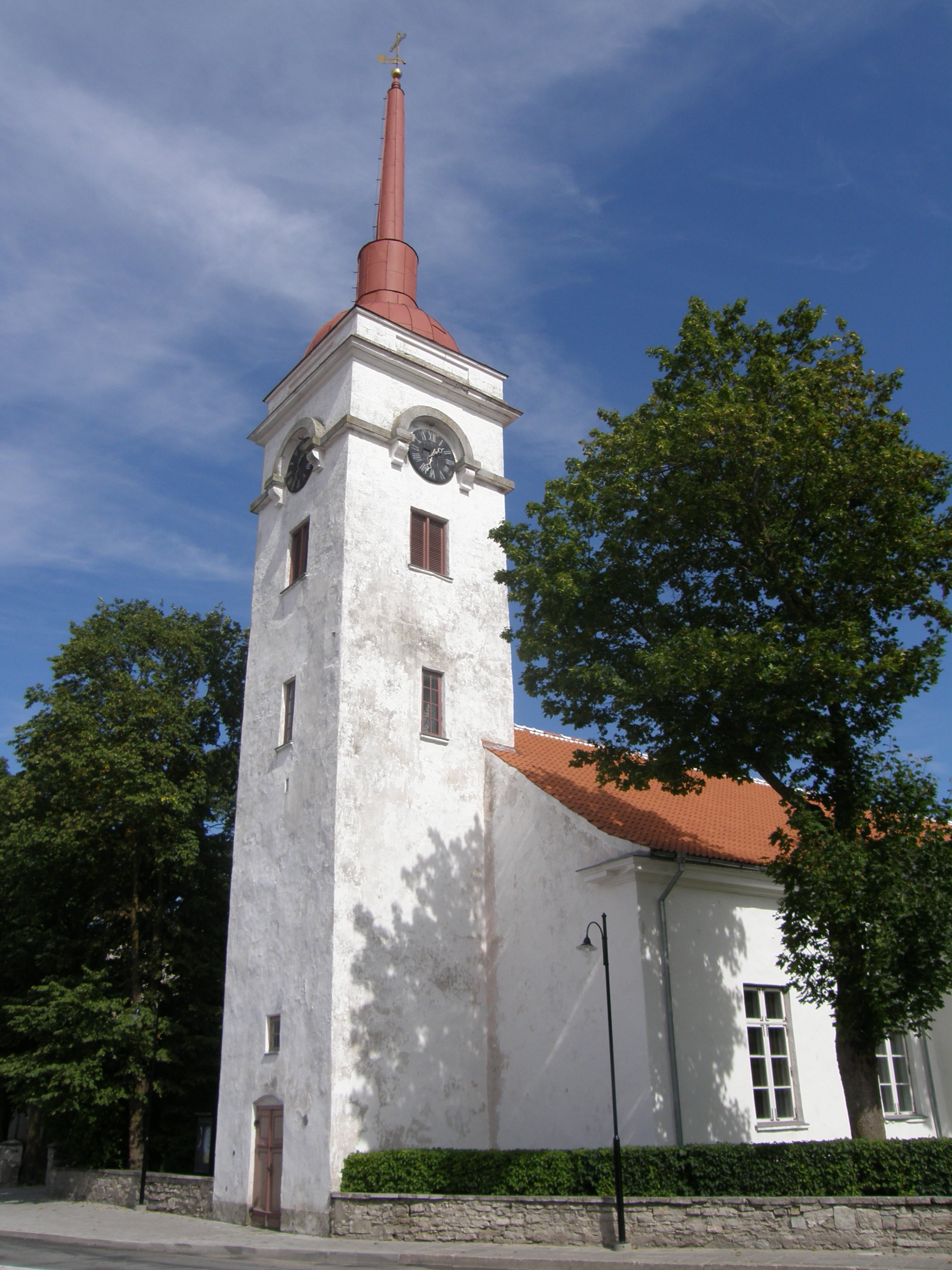 Kuressaare's St. Lawrence's church